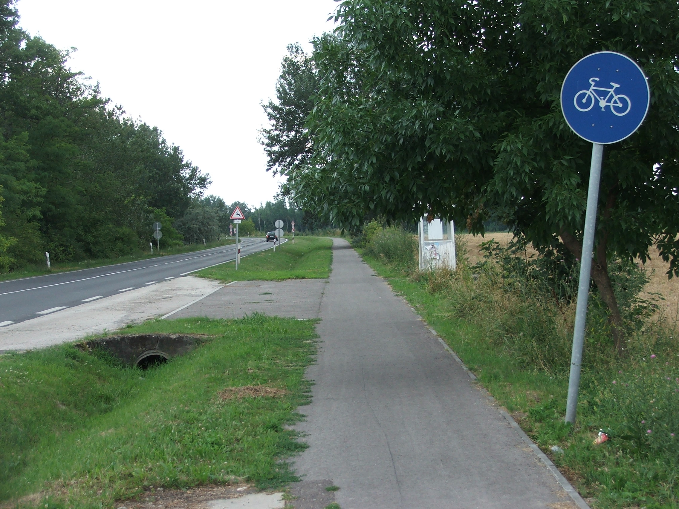 The Danube-Bikeway near Komárom, Hungary